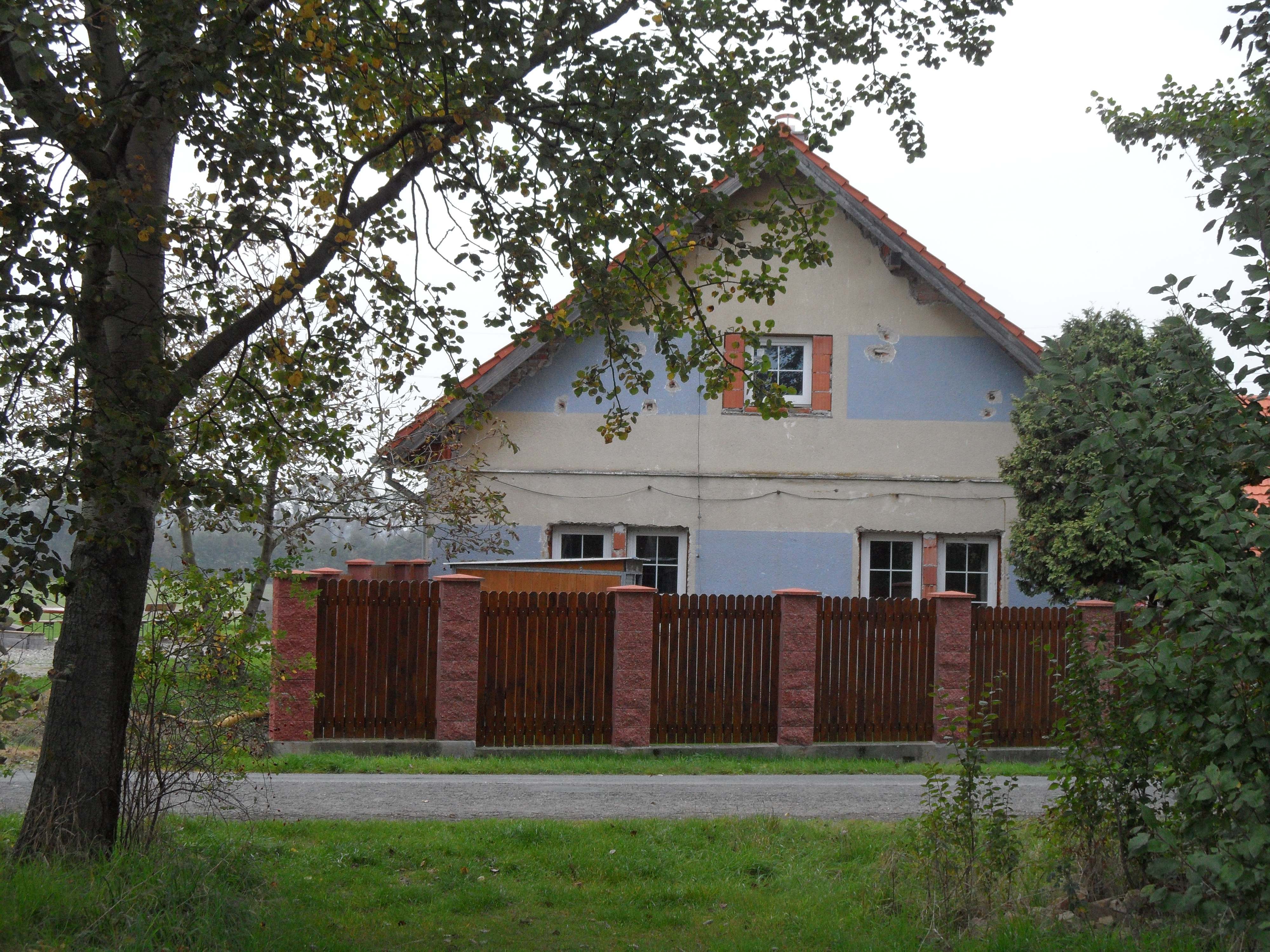 1=Bedřichov_(Nepoměřice) A. House at Crossroads, Kutná Hora District, the Czech Republic.